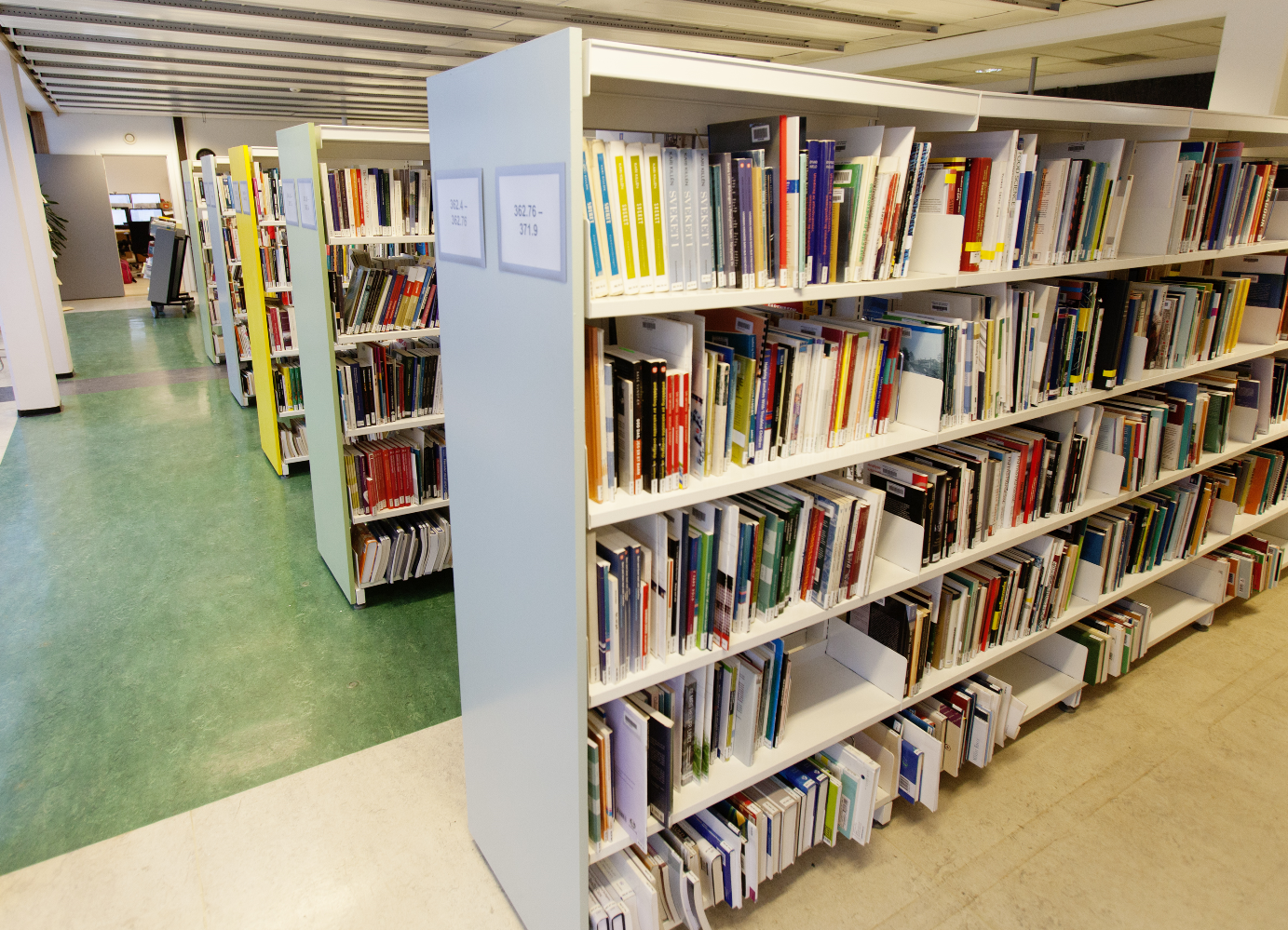 Interior of the Tungasletta branch of the NTNU University Library, Norwegian University of Science and Technology, Trondheim